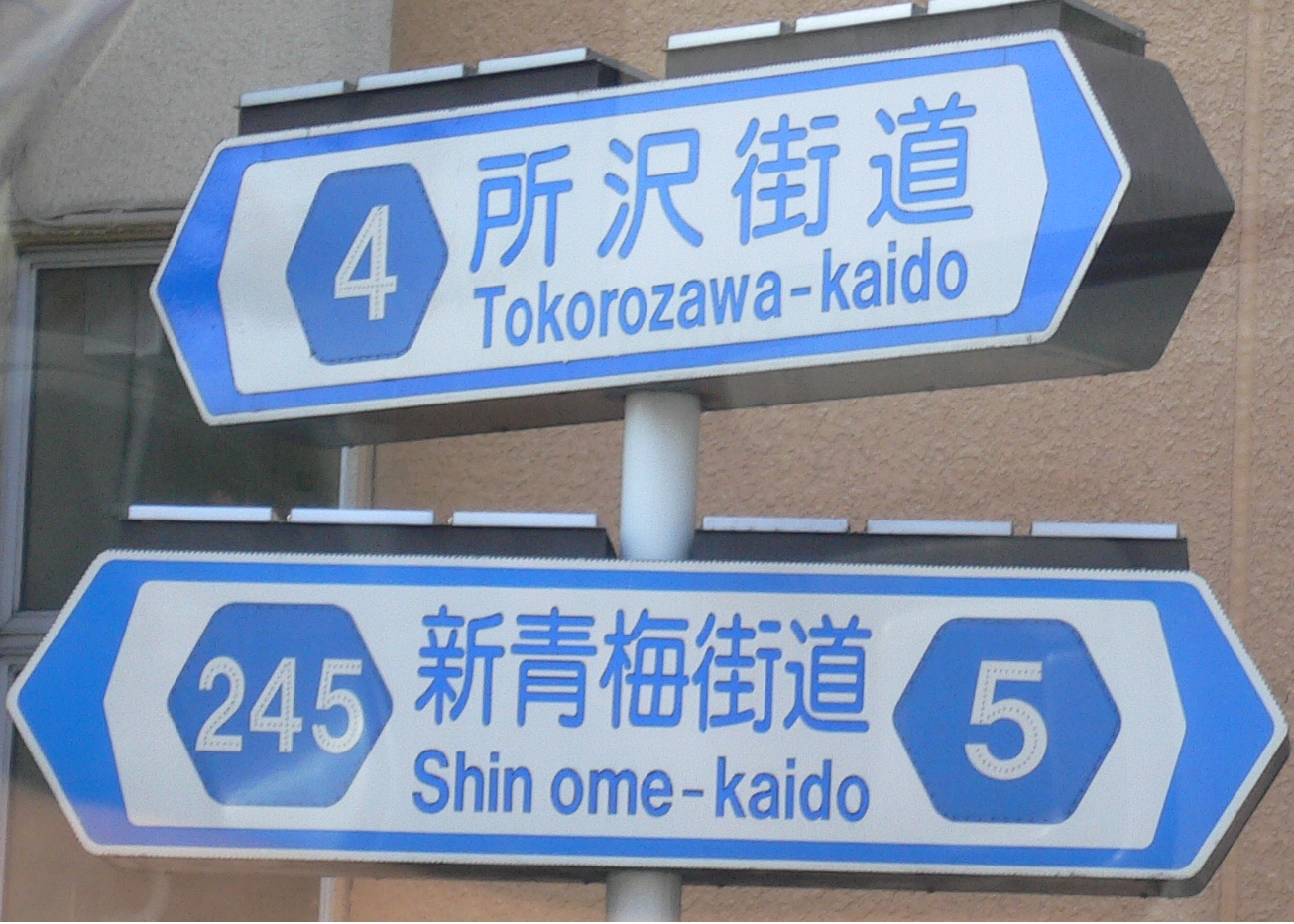 Kitahara crossing (所沢街道・新青梅街道), Nishi Tokyo C, Tokyo M.